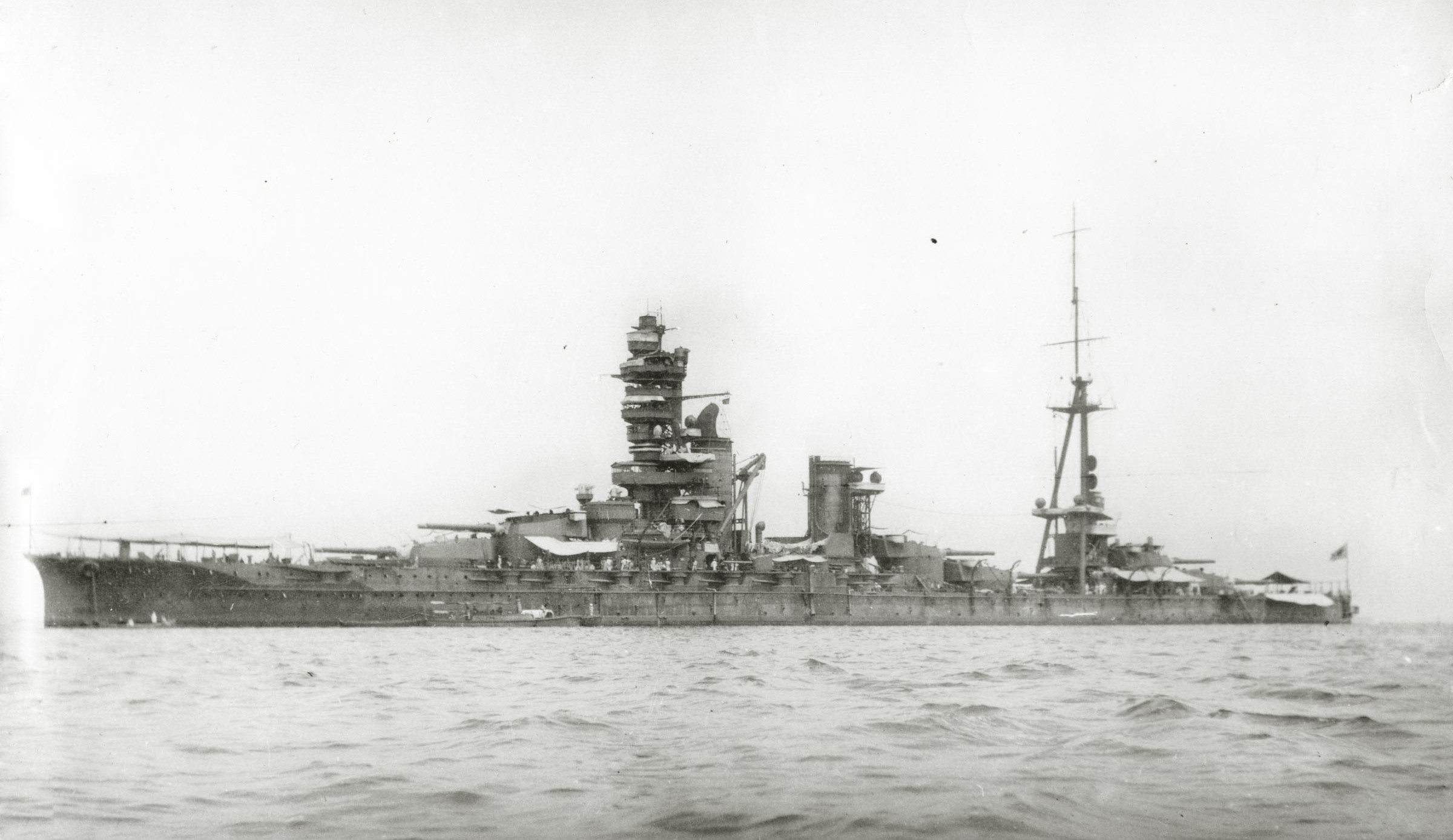 Ise at anchor in early August 1930